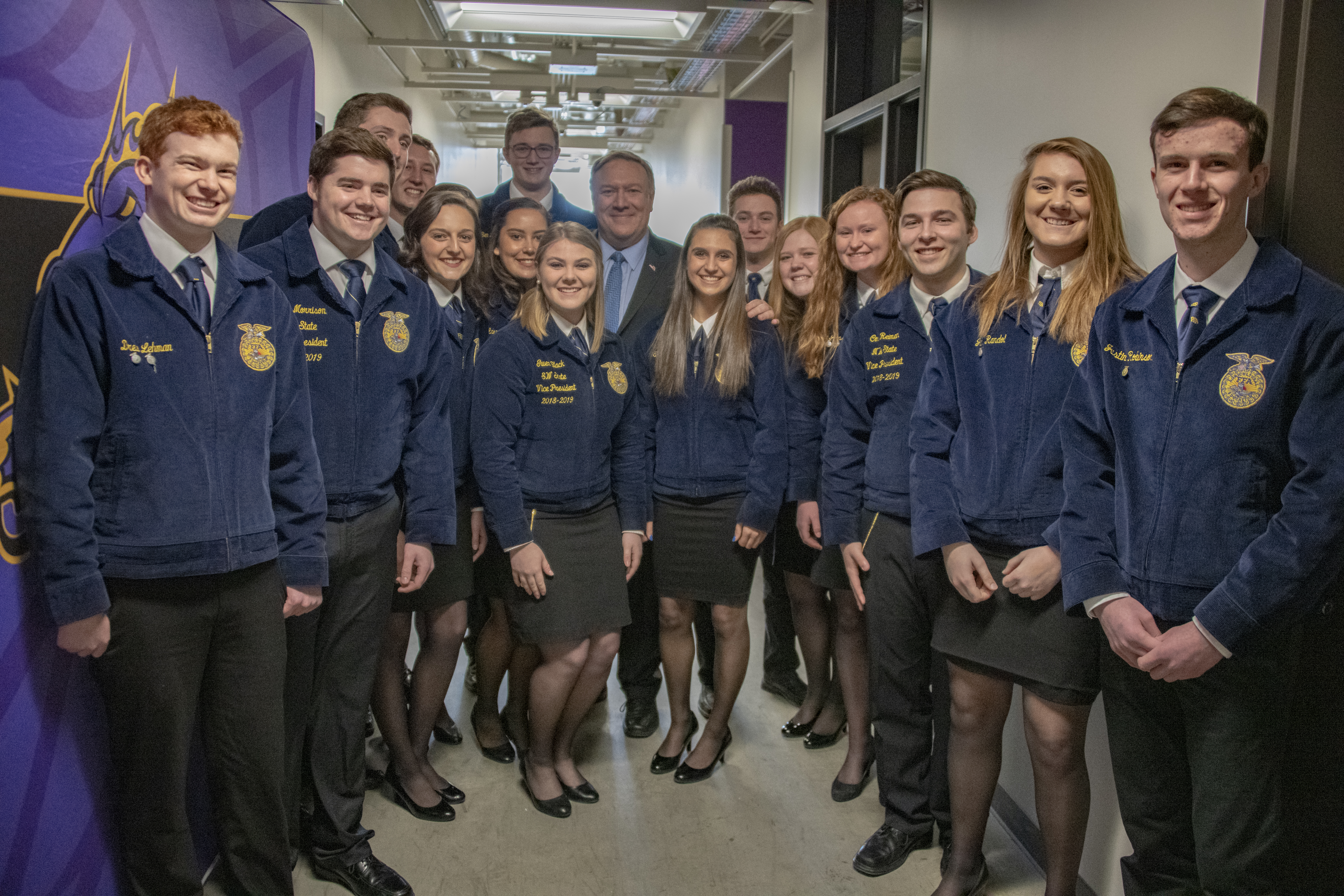 U.S. Secretary of State Michael R. Pompeo attends a Future Farmers of America event in Des Moines, Iowa on March 4, 2019. [State Department photo by Ron Przysucha/ Public Domain]